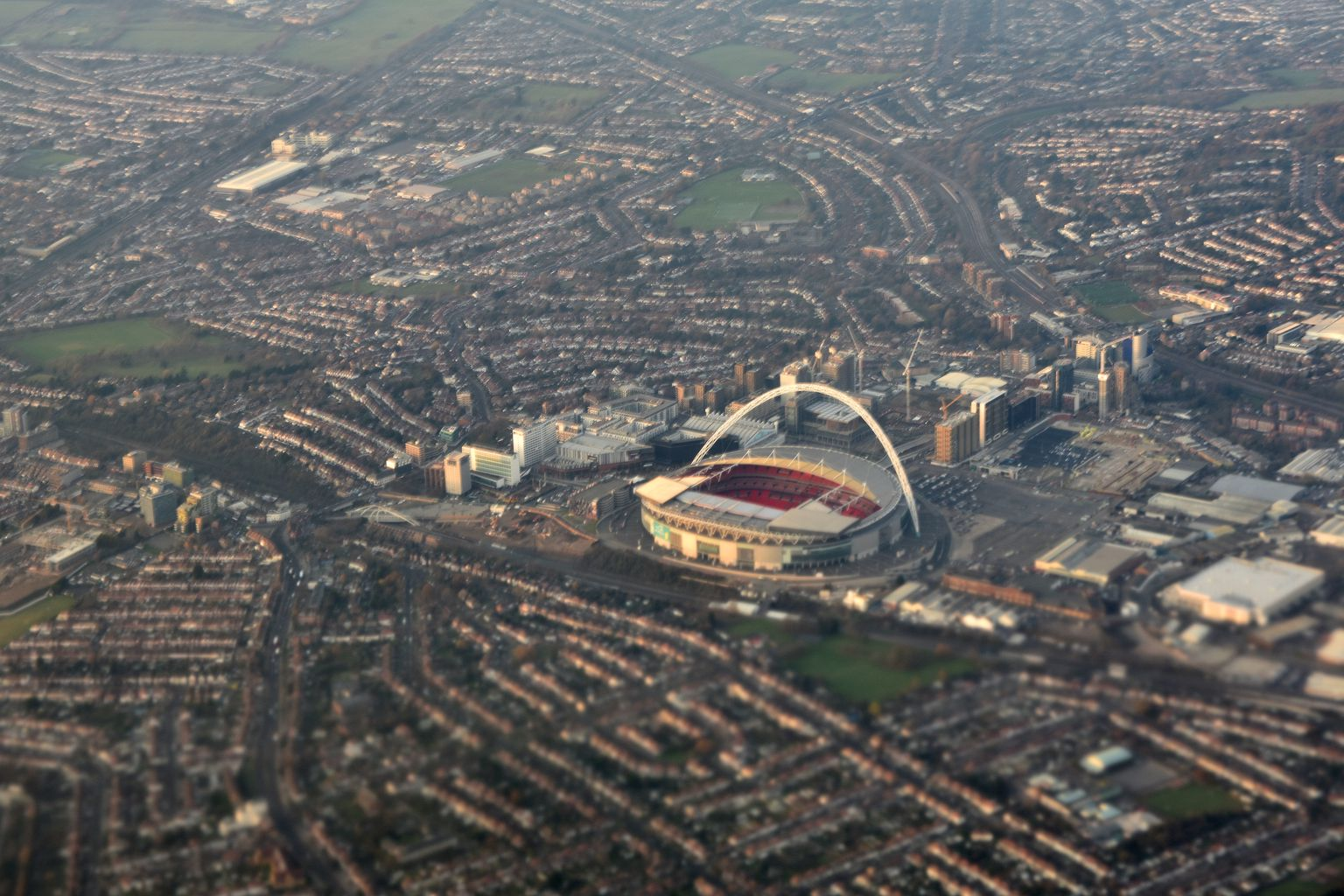 Aerial photograph of Wembley, London in December 2016.